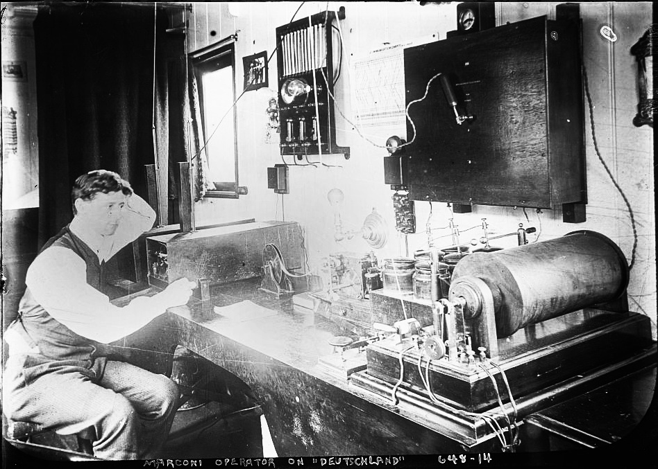 Radio operator in the radio room of the German ocean liner SS Deutschland probably in 1914, showing the early Marconi wireless telegraphy equipment. On the right is the spark transmitter, consisting of an induction coil, Leyden jar capacitors behind it, spark gap, and an oscillation transformer ("jigger") inside the wooden box on the wall. The operator transmitted information by tapping on a switch called a telegraph key (visible behind coil) which turned the spark on and off, transmitting pulses of radio waves to spell out text messages in Morse code. On the left is the receiver, which recorded Morse code messages with an ink line on paper tape, which the operator later translated into text. The equipment was produced by the Marconi Wireless Telegraph Co and the radio operator was also an employee. British-Italian entrepreneur Guglielmo Marconi invented the first practical radio transmitters and receivers in 1896. The first major use of radio was on ships, to keep in touch with the shore and call for rescue in emergencies, and Marconi's company dominated the marine wireless industry throughout the spark era until the 1920s, to the degree that the ship radio room was called the "Marconi room". Title: Marconi operator aboard ship "Deutschland", at his instruments Abstract/medium: 1 negative : glass ; 5 x 7 in. or smaller. Alterations to image by User:Chetvorno:: Cropped out black borders, reduced brightness of overexposed area in center of photograph and increased contrast.